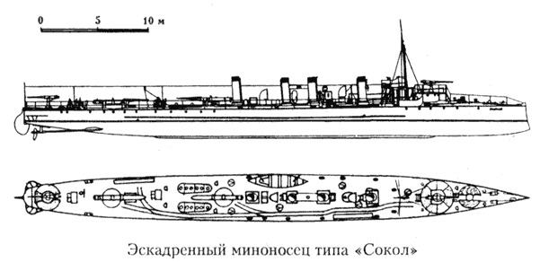 Imperial Russian built Сокол (Sokol) class destroyer, former torpedo boat destroyer.